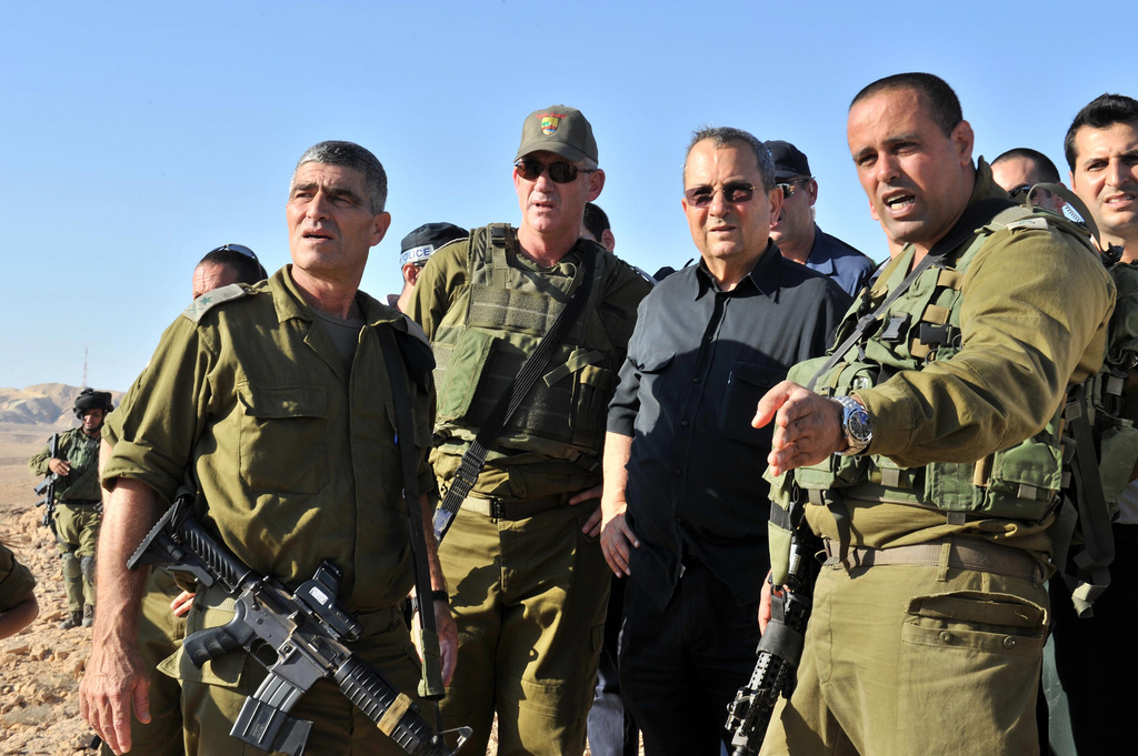 The commander of the IDF Southern Command Tal Russo, the Chief of General Staff Benny Gantz, the Defense minister Ehud Barak and Edom formation commander Tamir Yadai (from left to right), overlooking the site of terror strikes in Southern Israel, August 2011